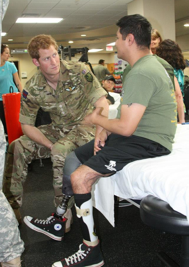 Prince Harry talking to an injured soldier